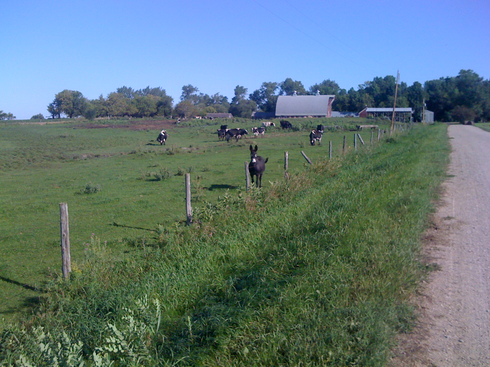 Outside of Lake Park